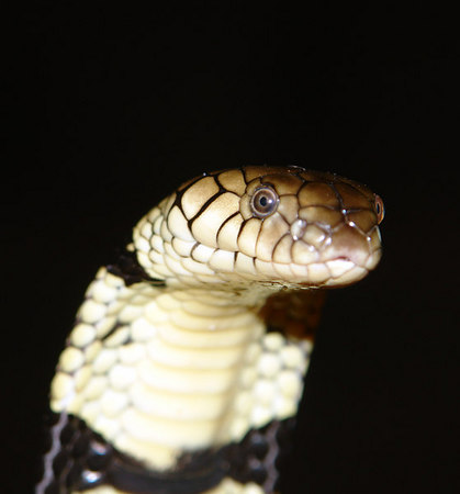 A banded water cobra (Boulengerina annulata) spreading a hood.